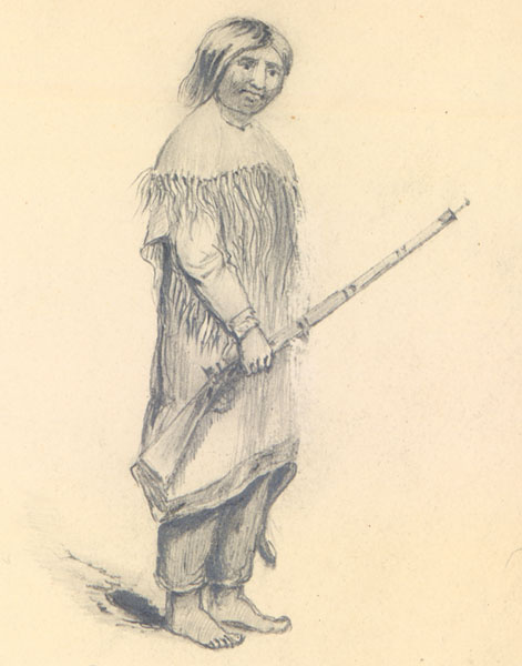 Image taken from - due to its age, and the fact that it's a product of the US government, it's in the public domain.